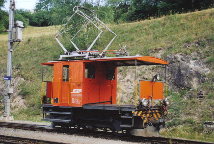 Te 2/2 71 der RhB am 22. Juni 2003 in Filisur.